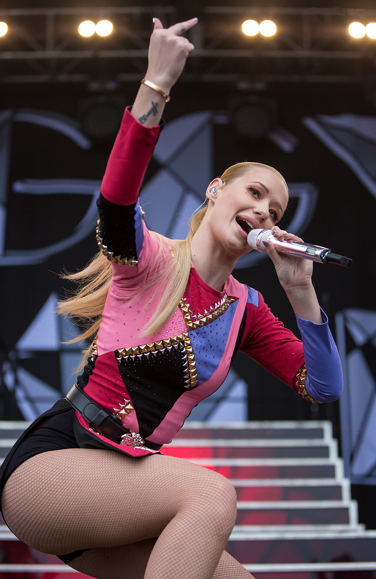 Australian hip hop recording artist Iggy Azalea performing at the ACL Music Festival